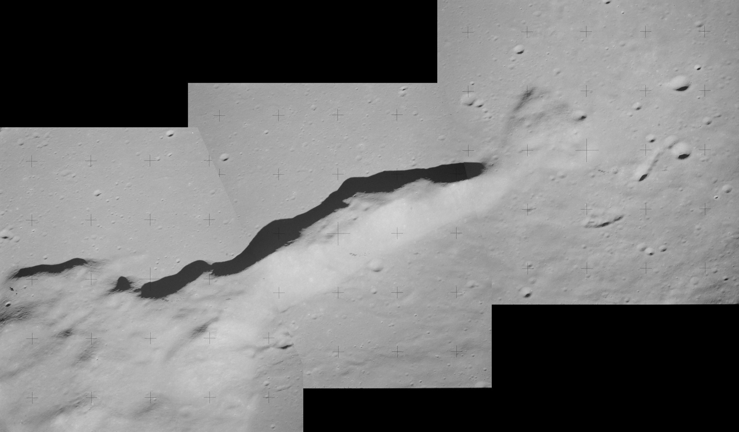 Mosaic of three Hasselblad camera frames showing part of Mons Delisle, western Mare Imbrium, on the moon.